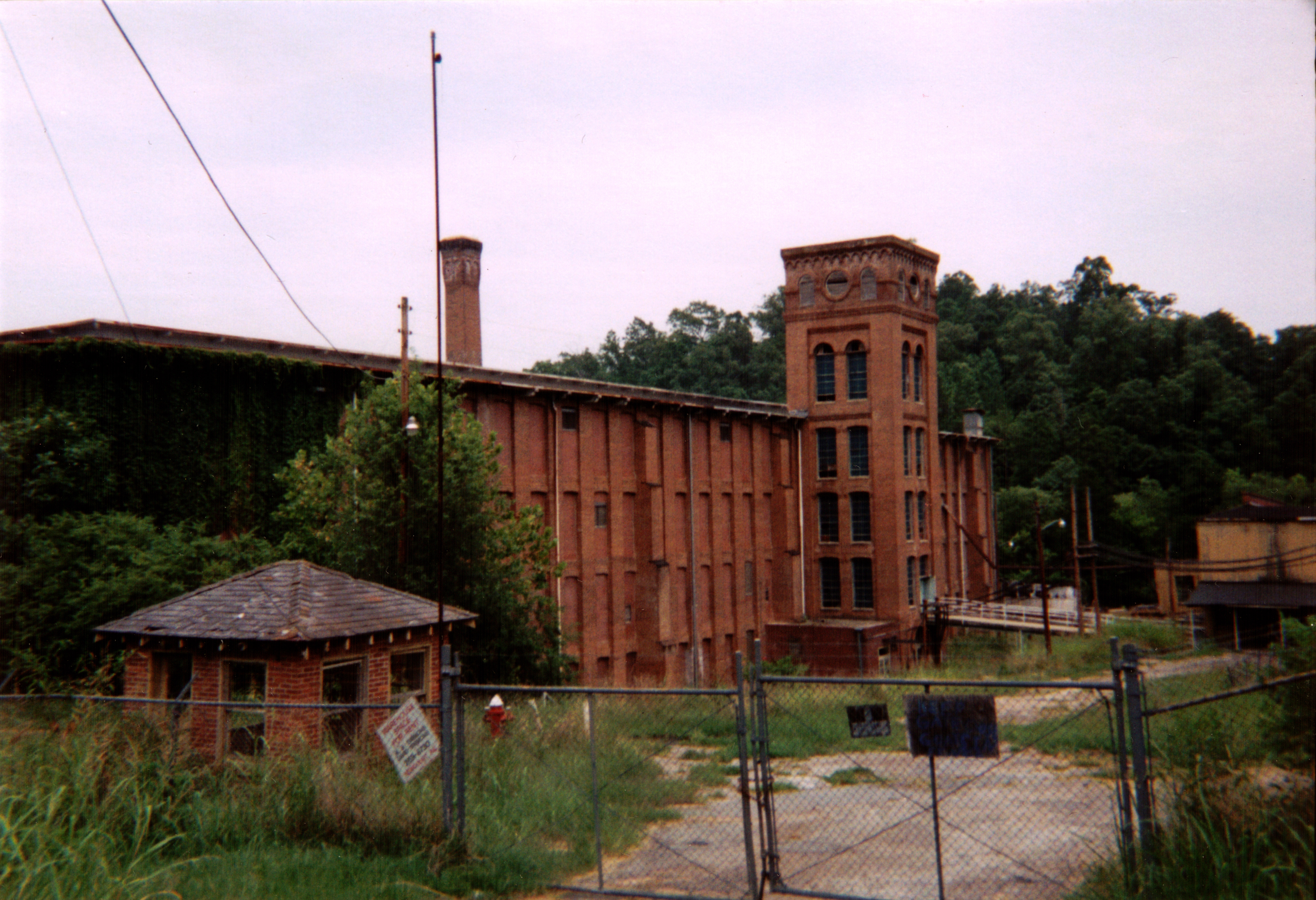 The Newry Mill in 1998, which was constructed in 1893-94 and closed in 1975.